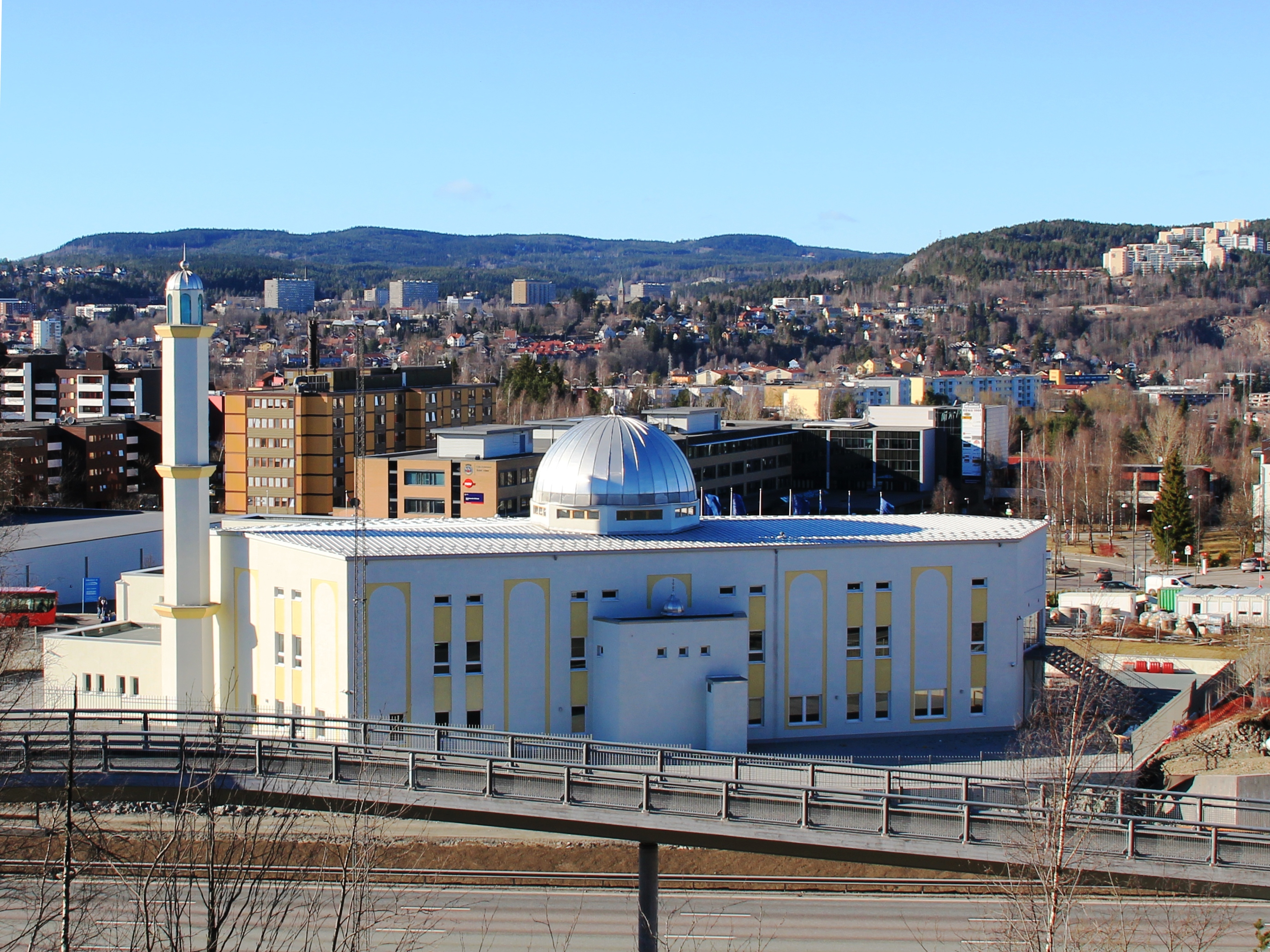 Bait-un-Nasr Mosque at Furuset in Oslo